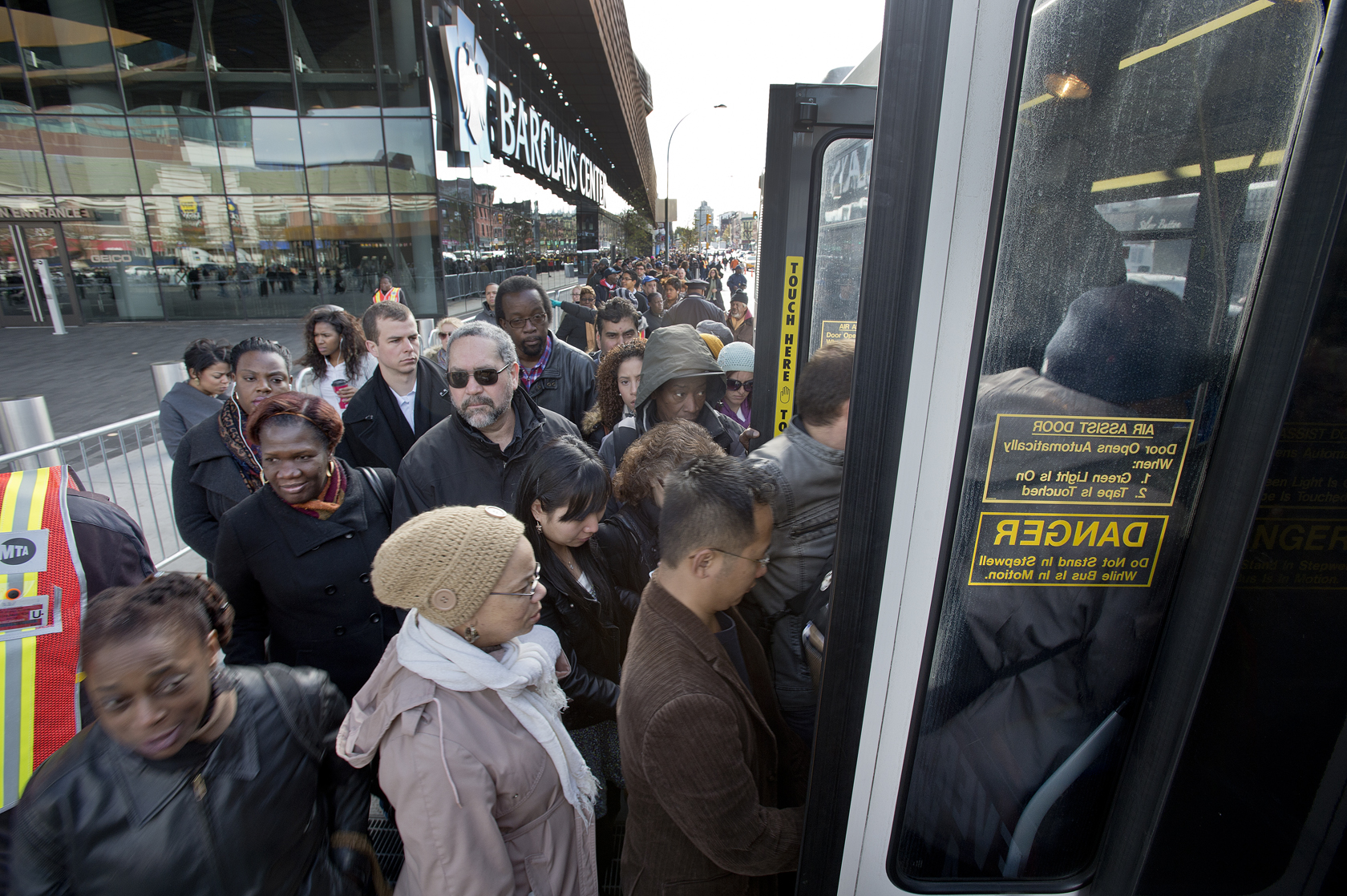 On November 1, 2012, subway tunnels under the East River remained out of service after they were flooded during Hurricane Sandy. As a temporary means to allow people across the East River, 330 shuttle buses connected subway and LIRR customers at Barclays Center, MetroTech, and Hewes St. with destinations in Manhattan. Crews are working 24 hours a day to pump millions of gallons of seawater out the flooded tunnels, then walk the tunnels to inspect tracks, third rail, and signals and make repairs as needed. Photo: Metropolitan Transportation Authority / Patrick Cashin.